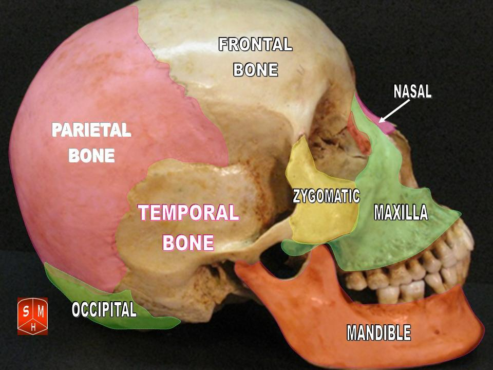 Bones of human skull